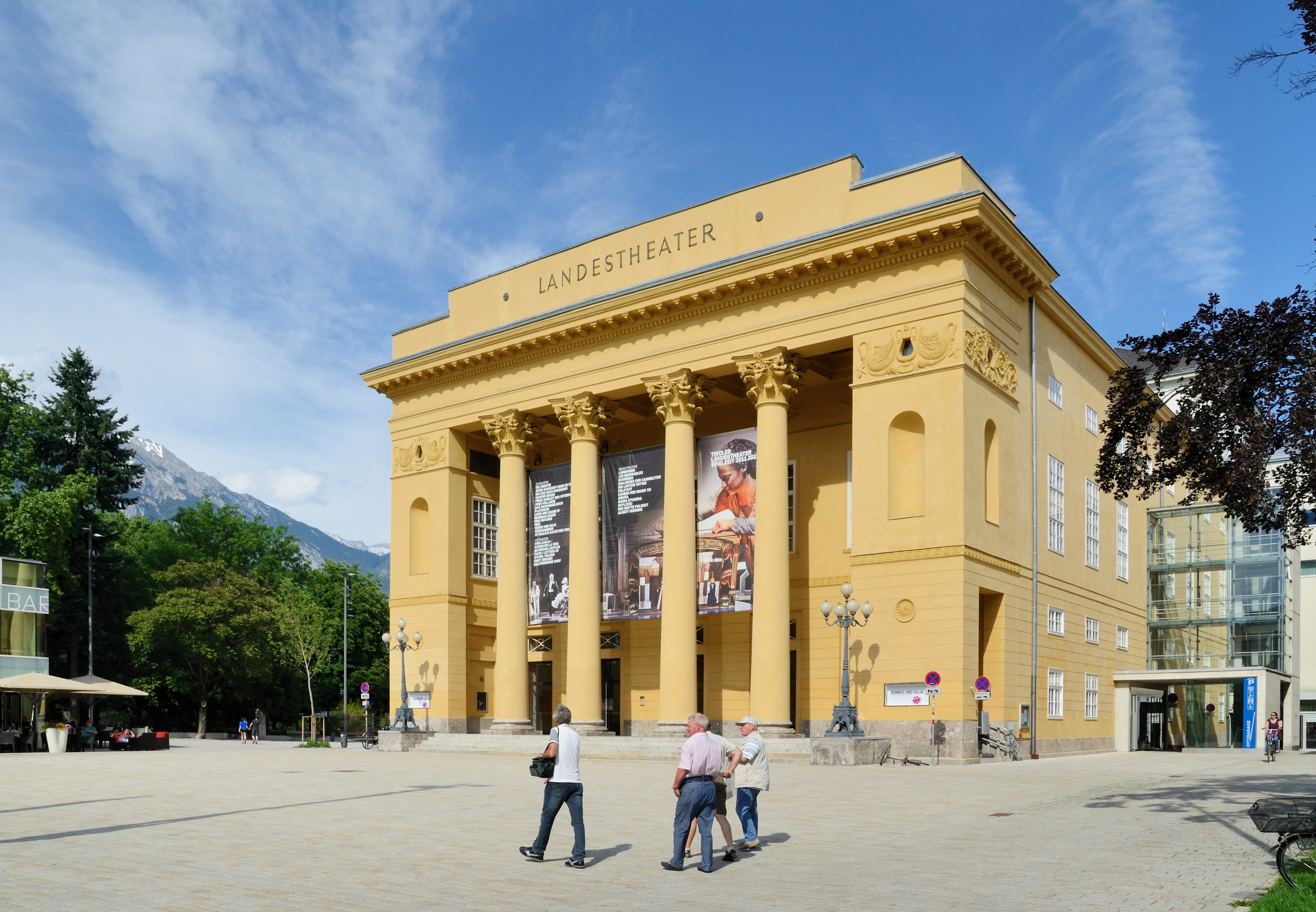 Innsbruck: Theatre of the federal state Tyrol